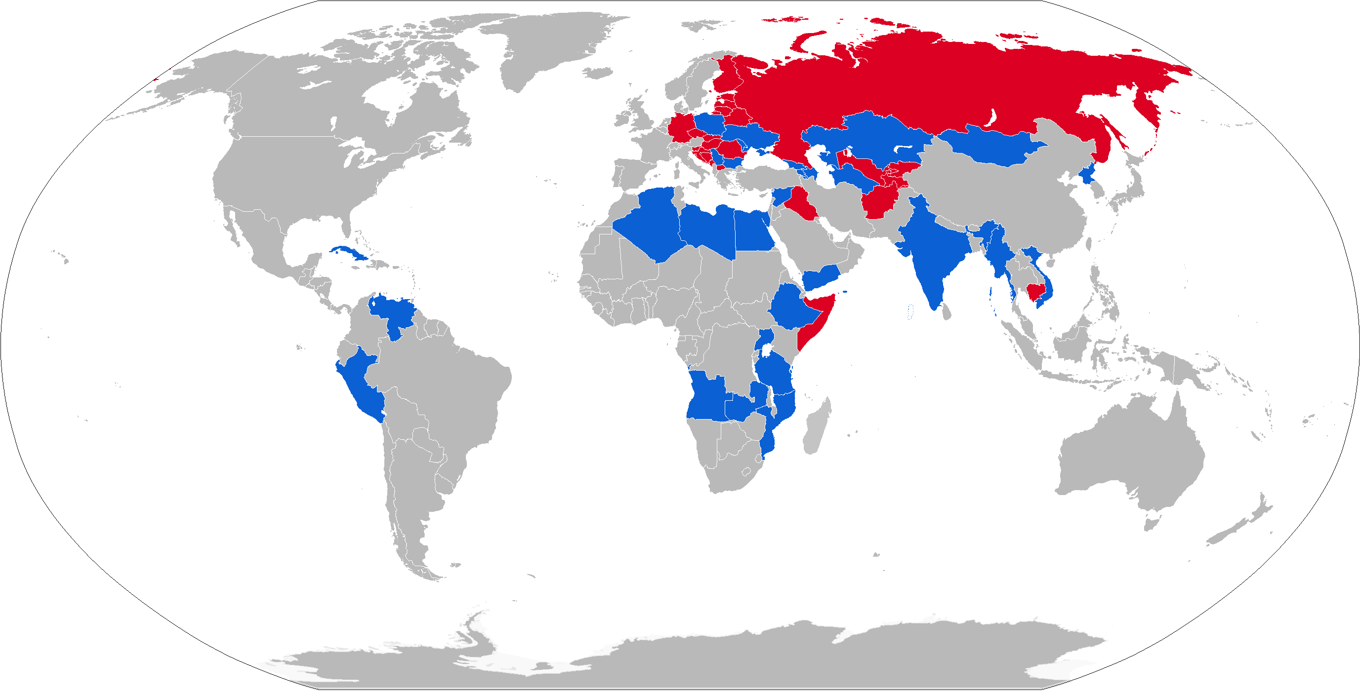 Map of S-125 operators in blue with former operators in red